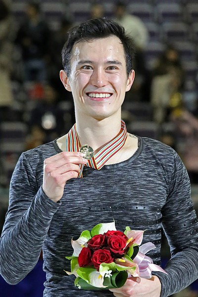 Patrick Chan during the 2016 Four Continent Championships